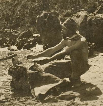 Photograph of Australian artist Arthur Streeton painting en plein air at Curlew Camp, Sydney.